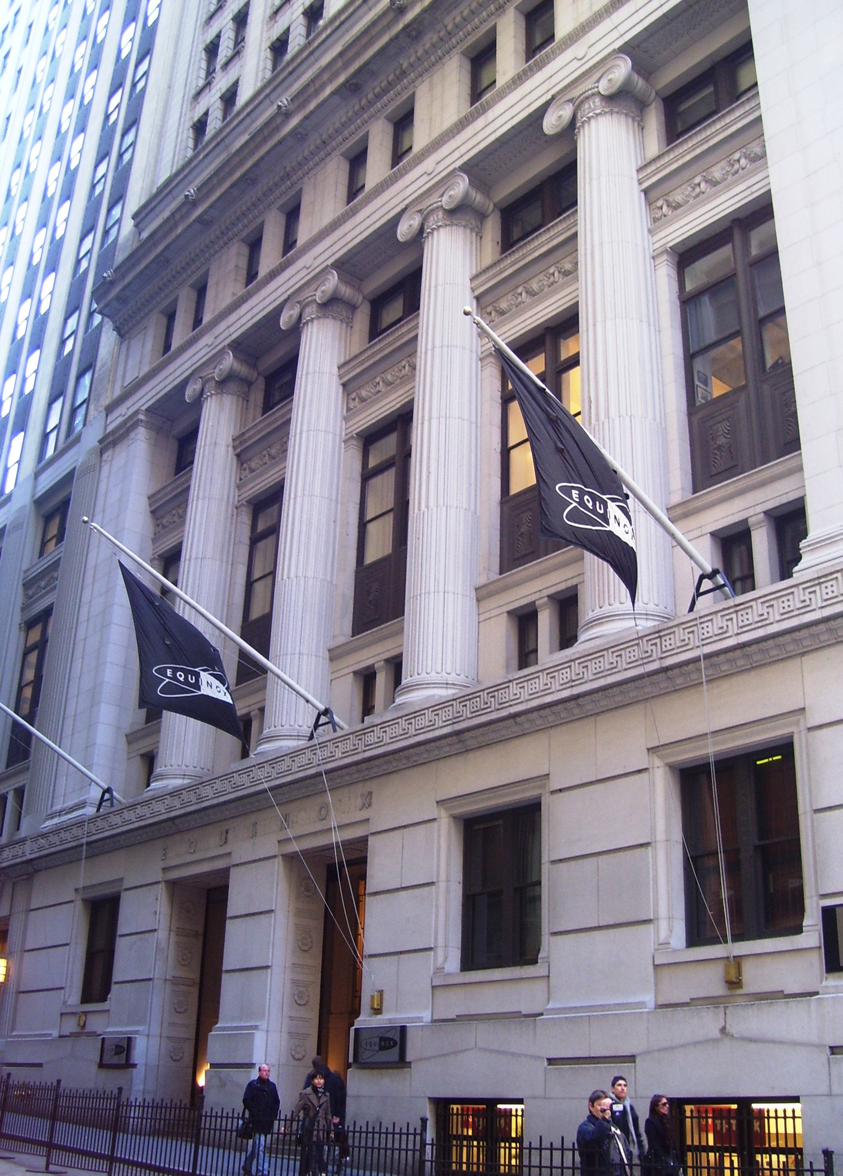 The Bankers Trust Building at 14 Wall Street at the corner of Broad Street and running through to Pine Street, was built in 1910-12 and was designed by Trowbridge & Livingston in the neoclassical style. An addition with Art Deco detailing, designed by Shreve, Lamb & Harmon, was constructed in 1931-33. The stepped pyramid at the building's top became the logo for Bankers Trust, which sold the building in 1937. It was designated a NYC landmark in 1997. (Source: Guide to NYC Landmarks (4th ed.))